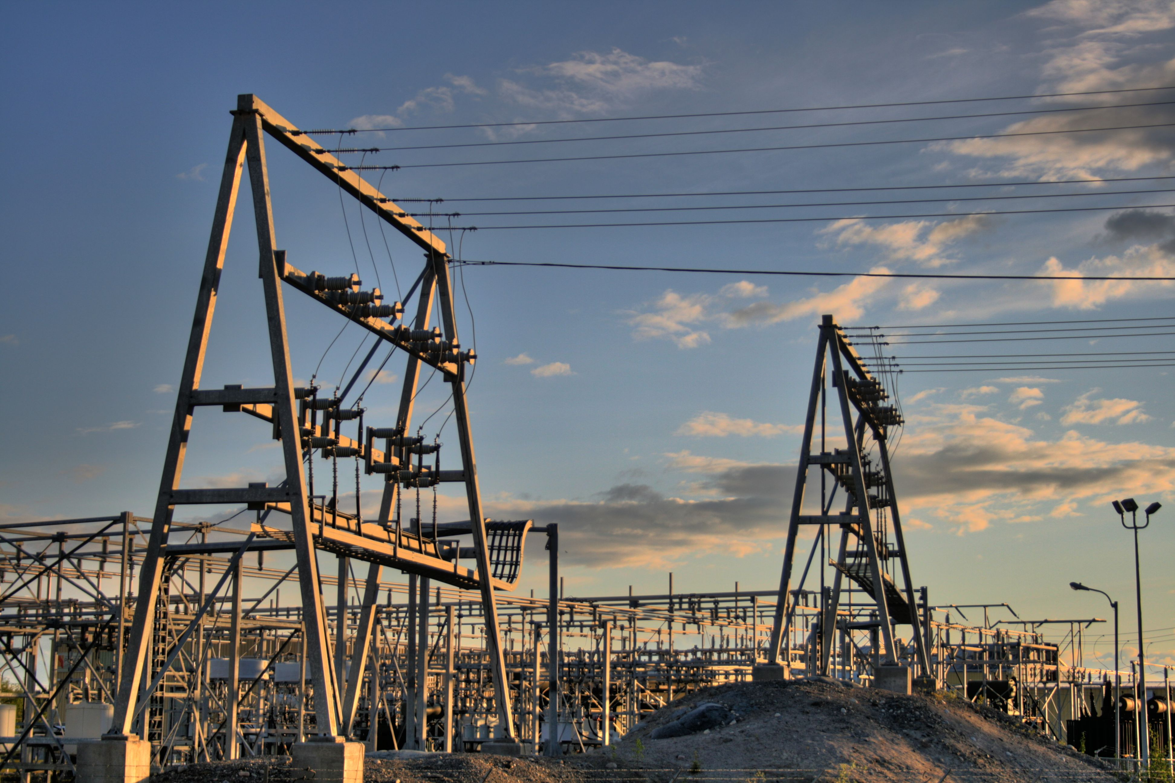 Power transmission towers at Northwest Territories Power Corporation (NTPC) power plant, Yellowknife, Northwest Territories, Canada.